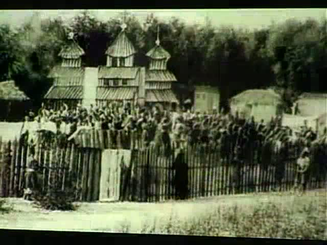 Scene from the movie "Zaporizhska Sich", removed in Lotsmanskaya Kamenka in 1911.